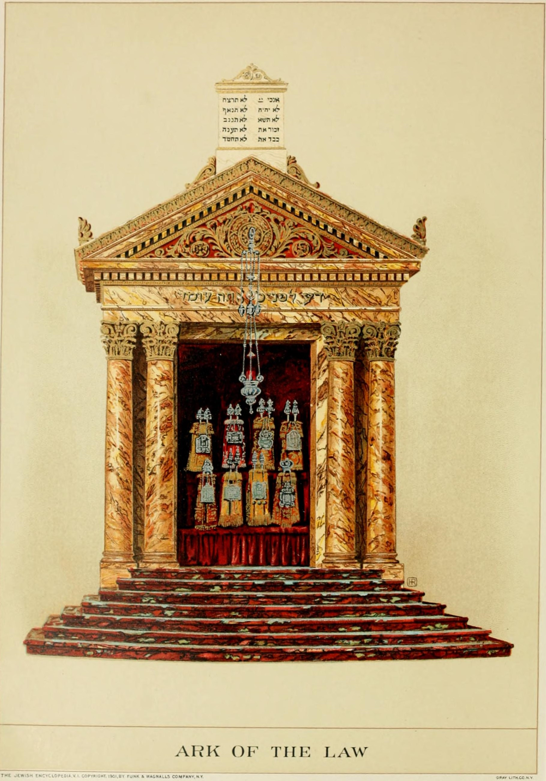 First illustration from the first volume of The Jewish Encyclopedia published by Funk & Wagnalls between 1901 and 1906.